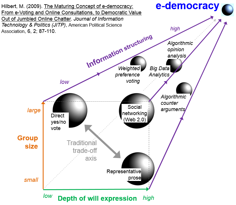 3D Roadmap to e-democracy, based on Hilbert, M. (2009). The Maturing Concept of e-democracy: From e-Voting and Online Consultations, to Democratic Value Out of Jumbled Online Chatter. Journal of Information Technology & Politics, 6, 2; 87-110.